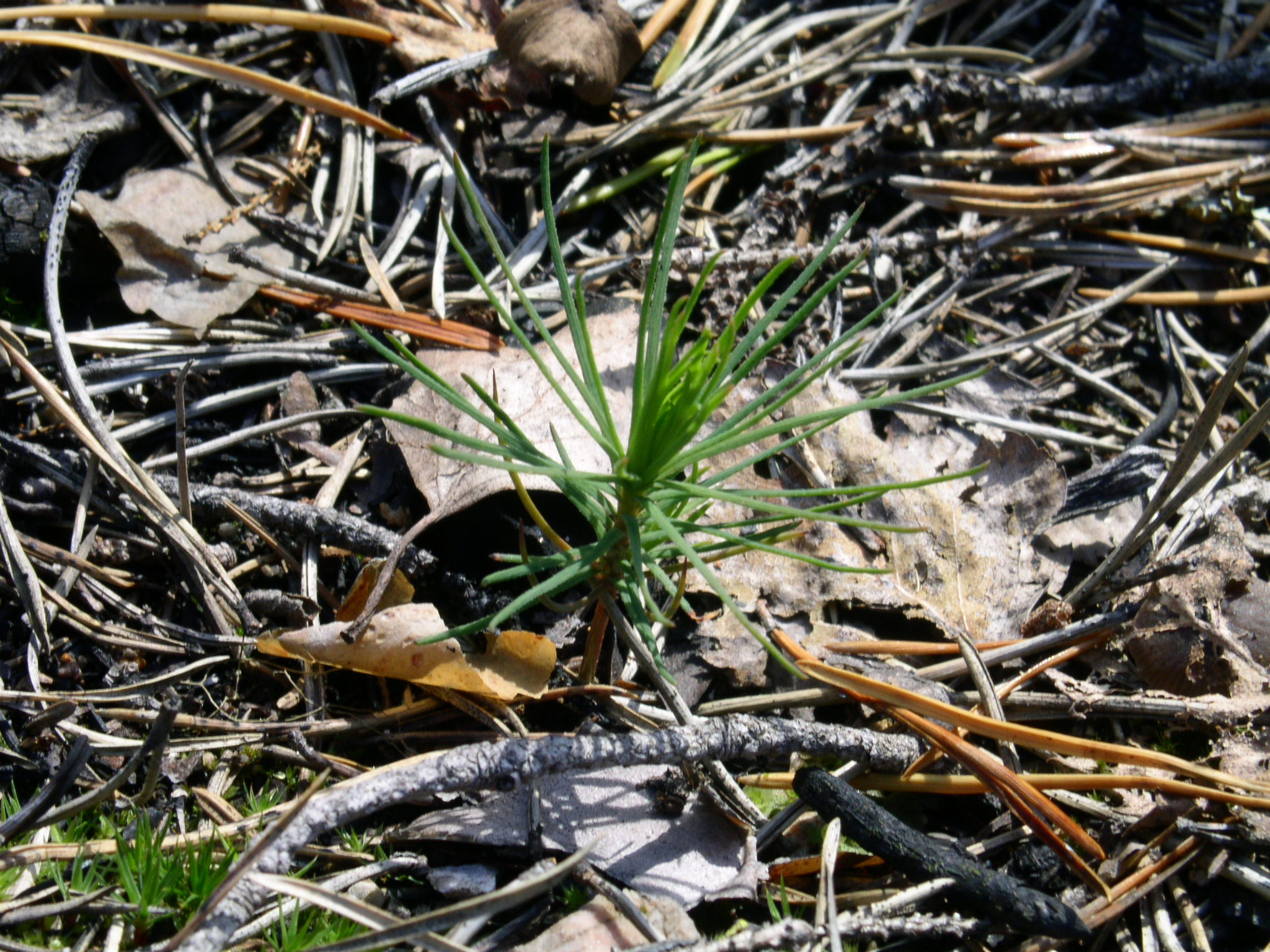 Wild fire area, N Hörken, Ljusnarsberg, Sweden. After the wild-fire new plants of Pinus sylvestris grows. First year only a few, but soon the surviving pines will put a lot of cones and seed the ground